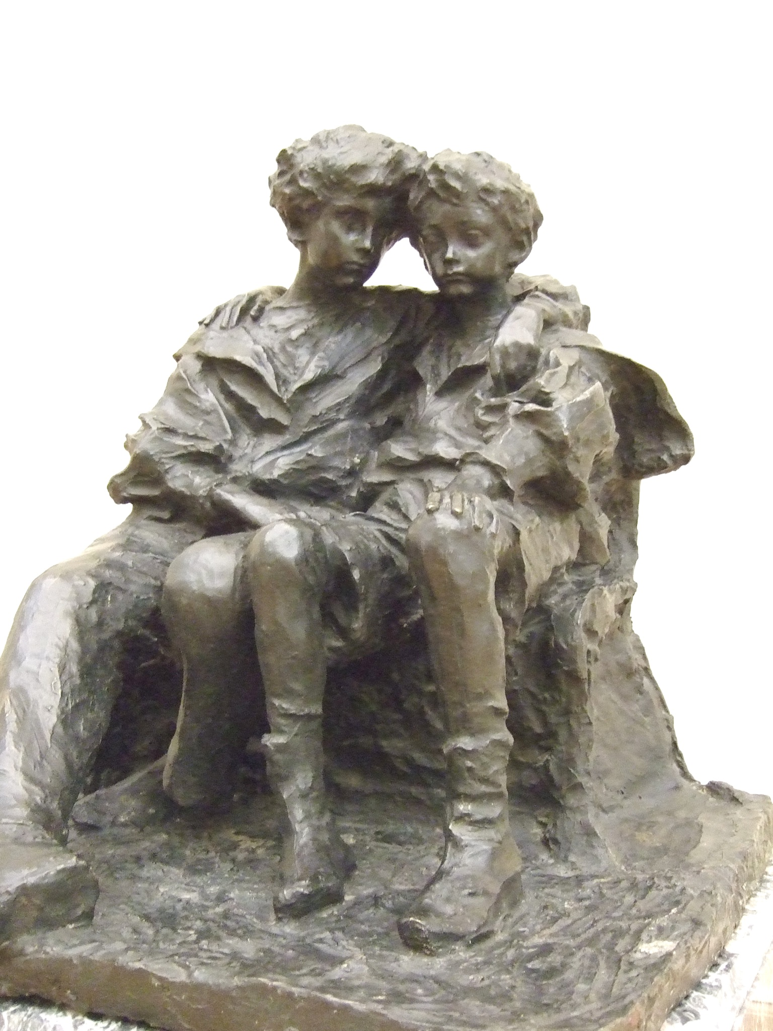 Children (N.S. and V.S. Troubetzkoys)